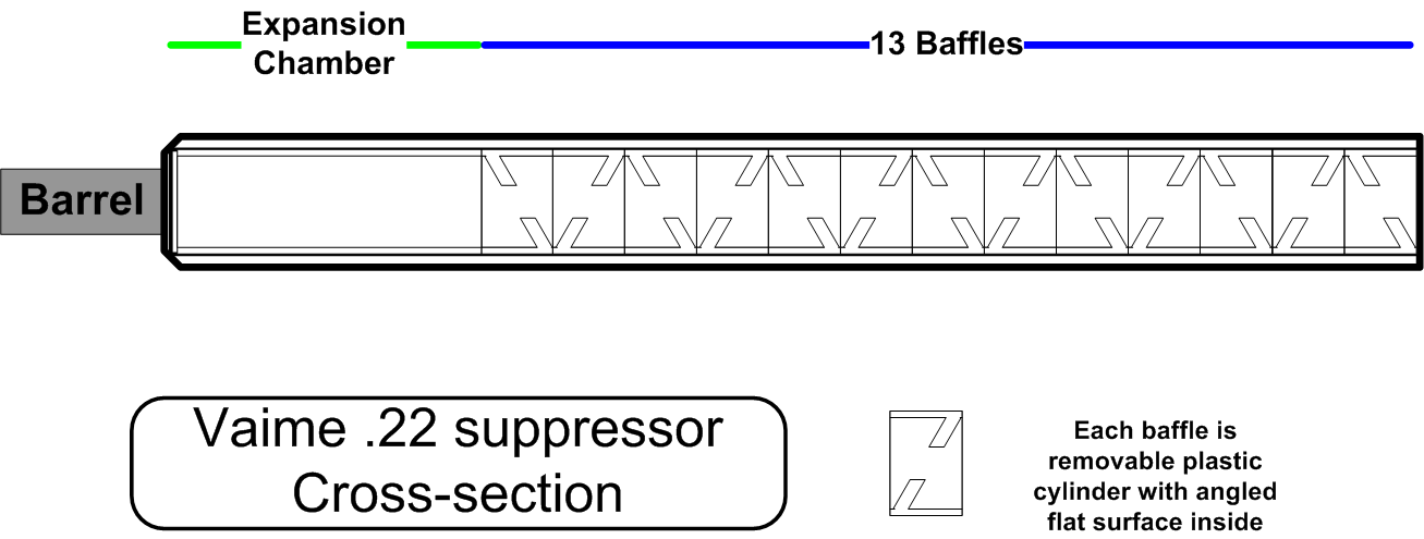 A Vaime .22 caliber sound suppressor